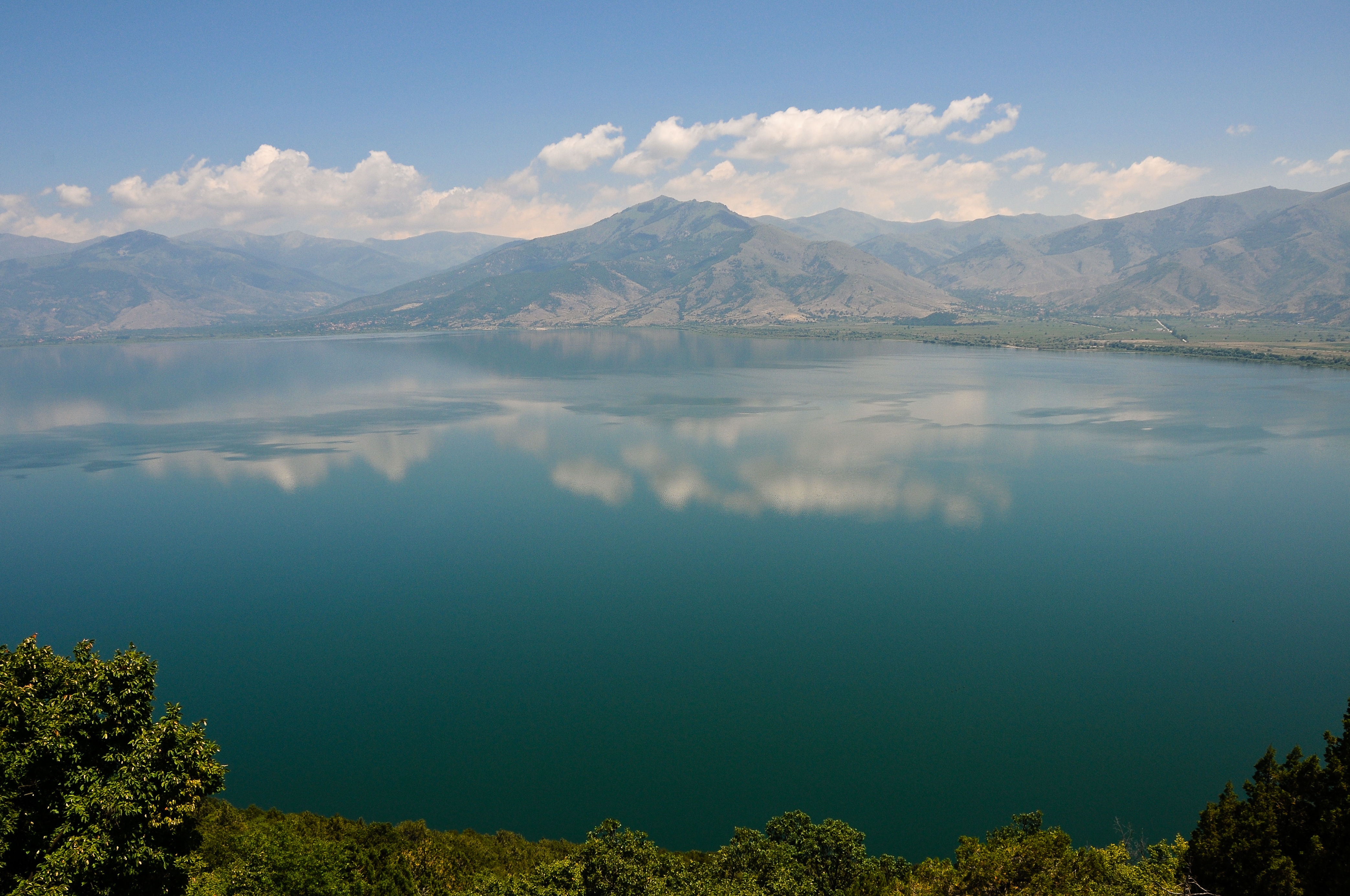 This is a photography of Natura 2000 protected area with ID GR1340001